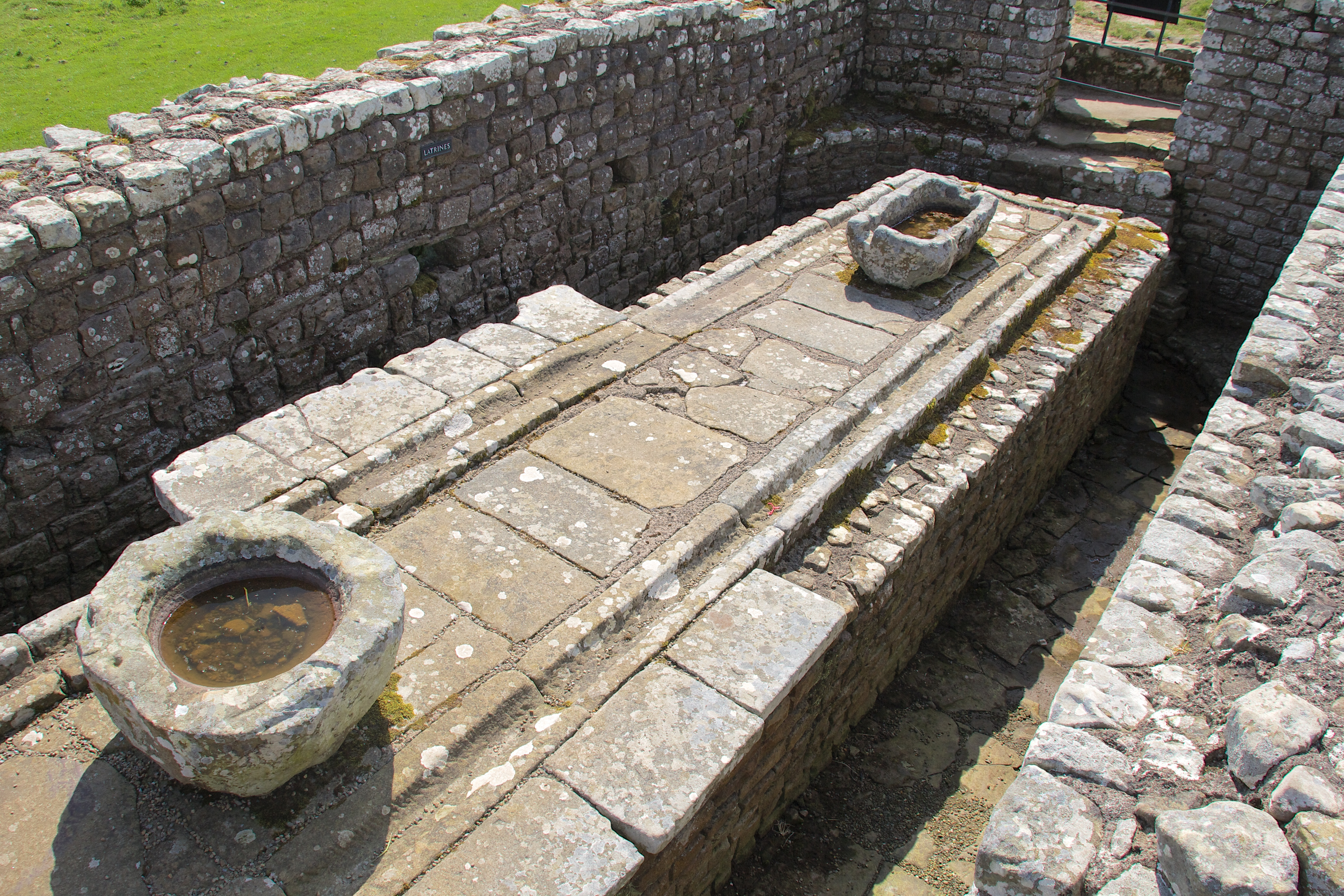 Housesteads roman fort on Hadrian's Wall.